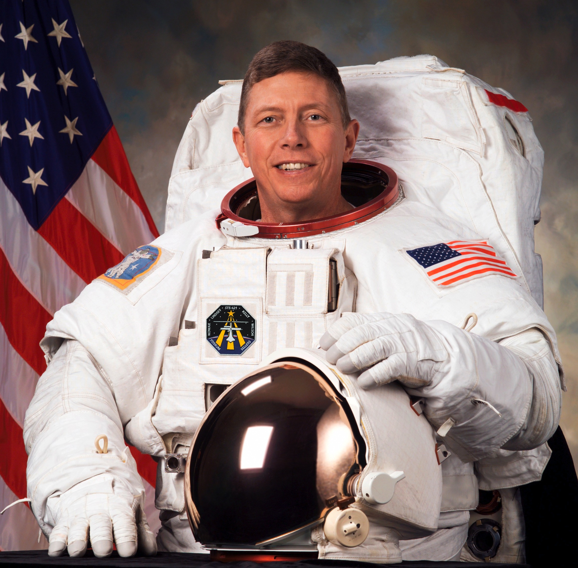 Astronaut Michael E. Fossum, mission specialist of STS-121 and STS-124